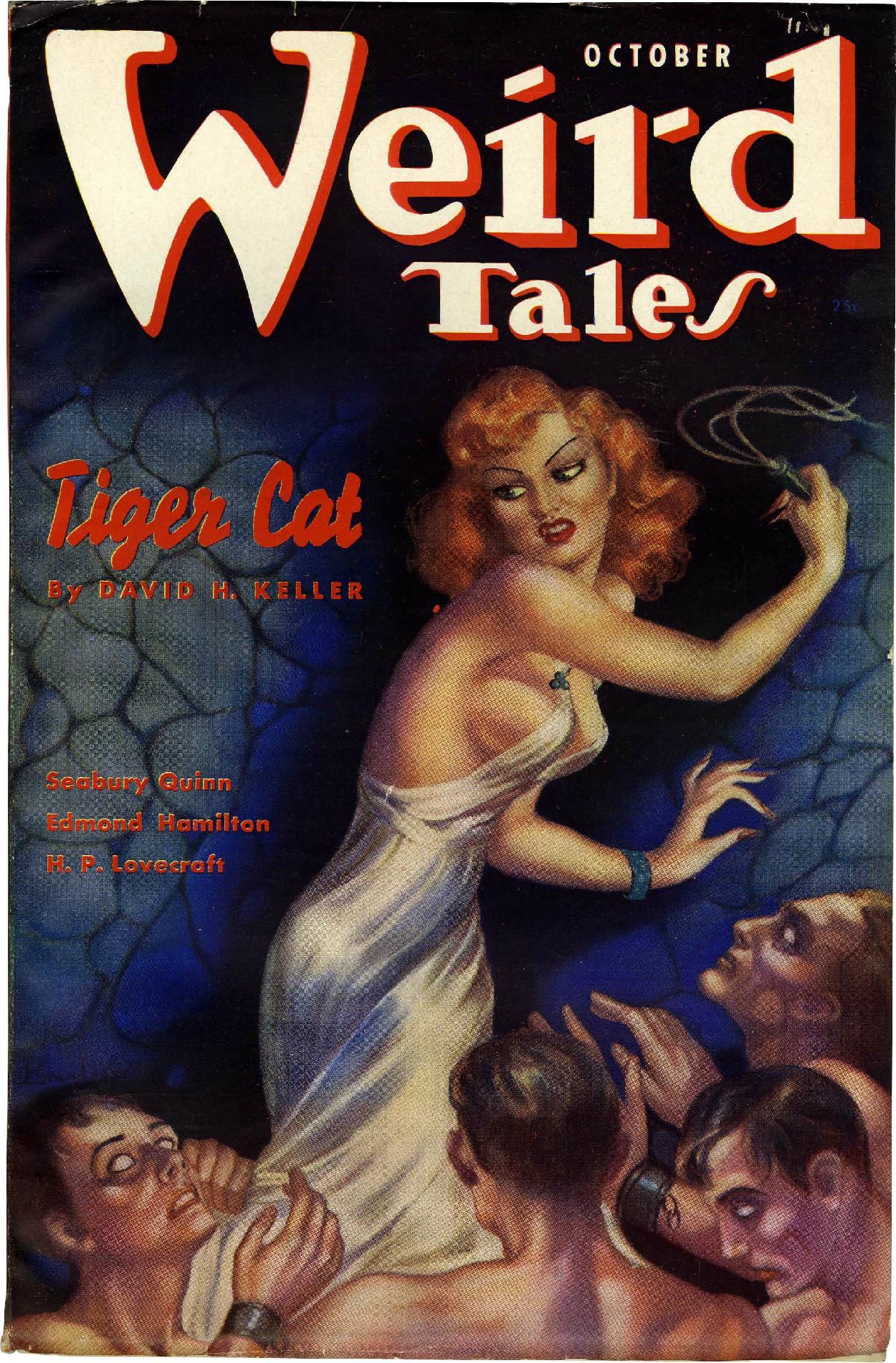 Cover of the pulp magazine Weird Tales (October 1937, vol. 30, no. 4) featuring Tiger Cat by David H. Keller. Cover art by Margaret Brundage.